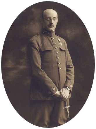 Coronel Antonio García Pérez